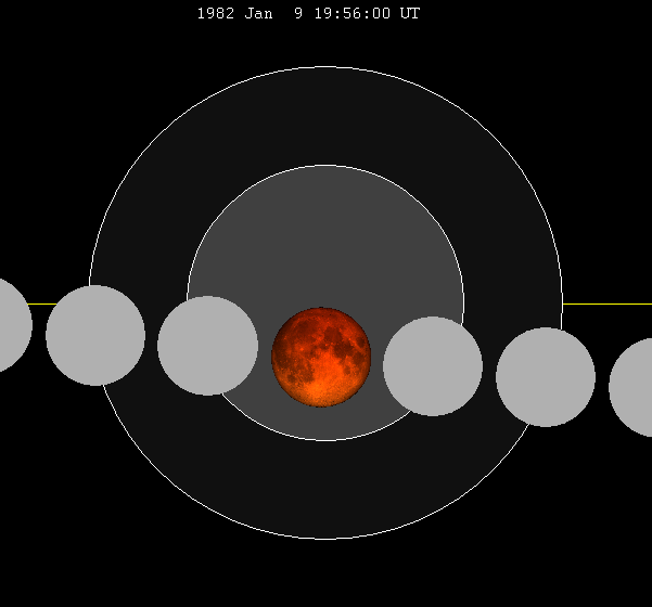 January 1982 lunar eclipse chart of moon's path through the earth's shadow. thumb